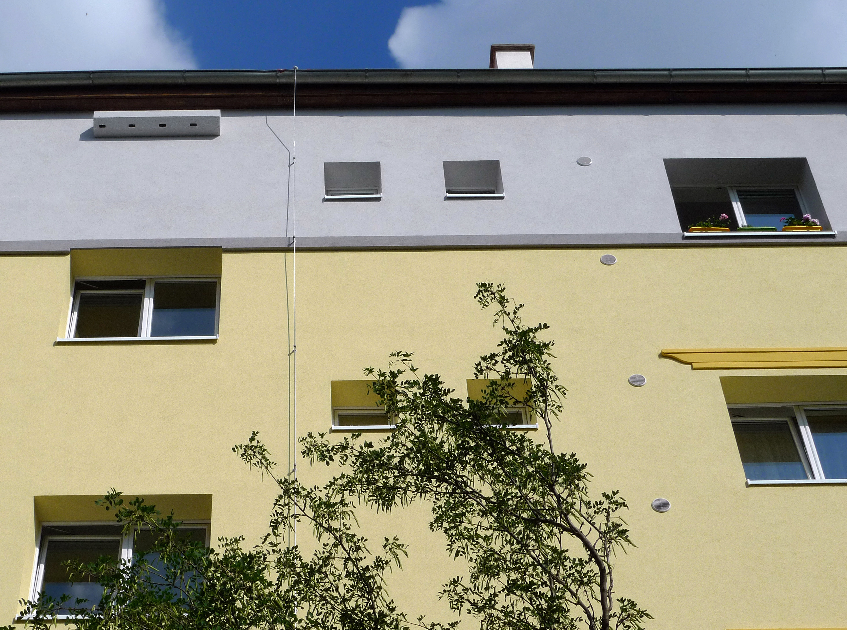 Apus apus Nest box in Prague 10, Czech Republic.